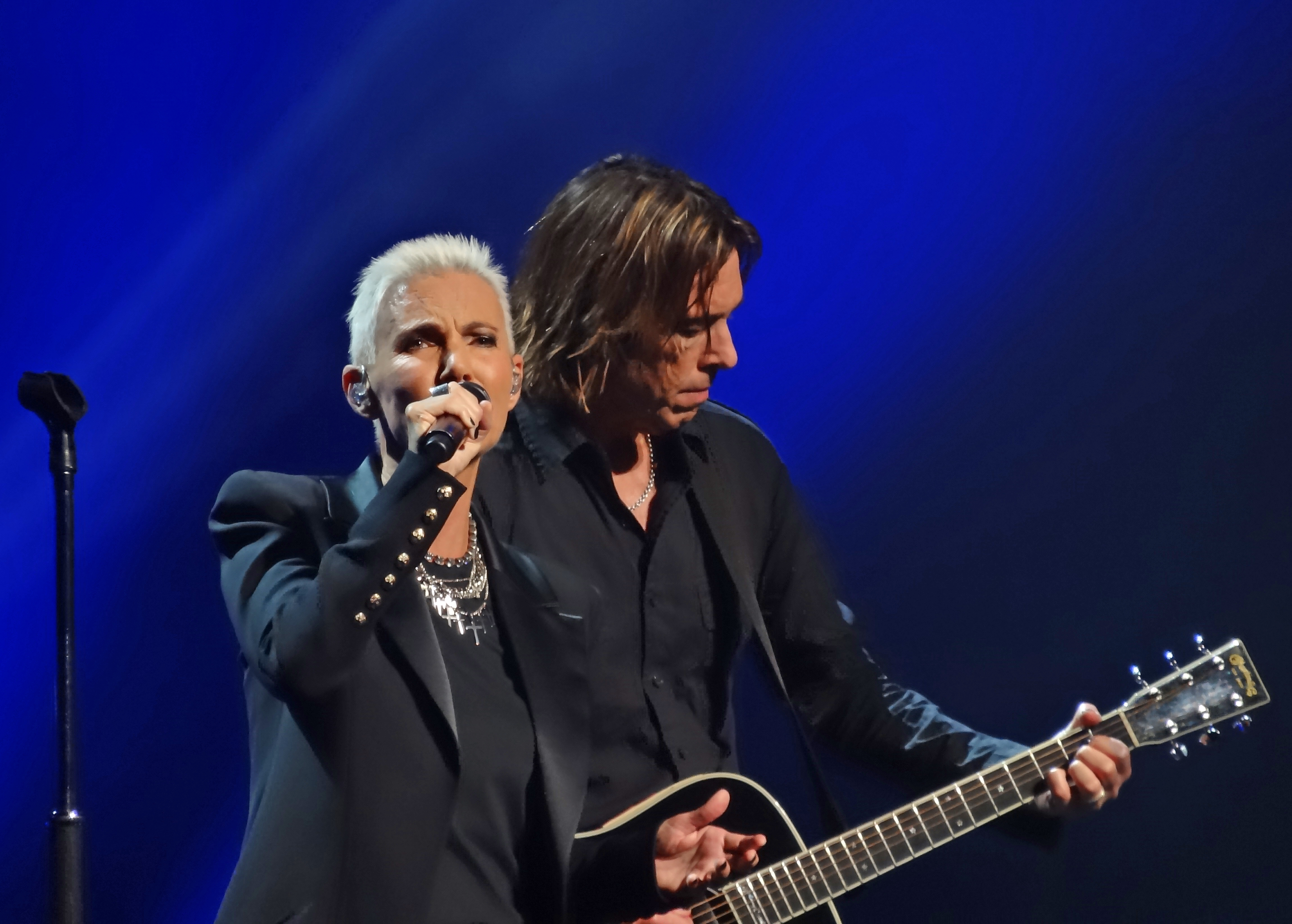 Roxette at the Beacon Theater, NYC